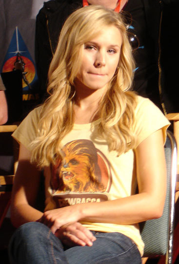 Kristen Bell at the Star Wars Celebration IV In May 2007.